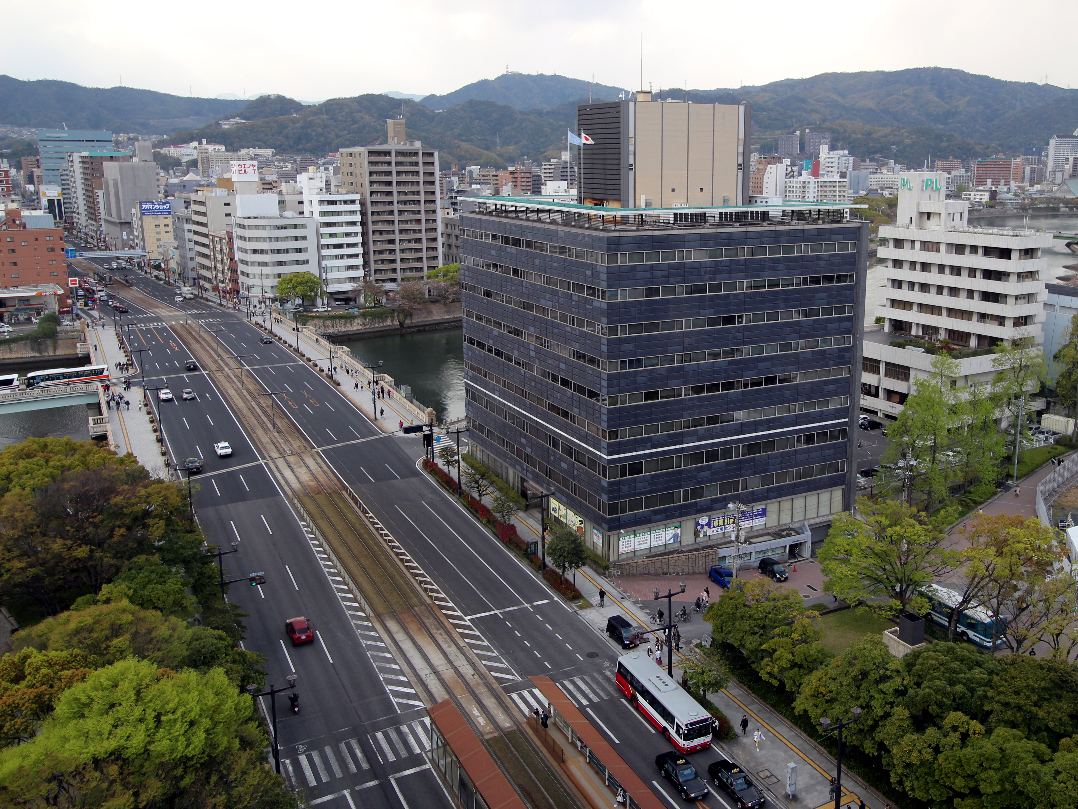 Hiroshima Chamber of Commerce and Industry building.